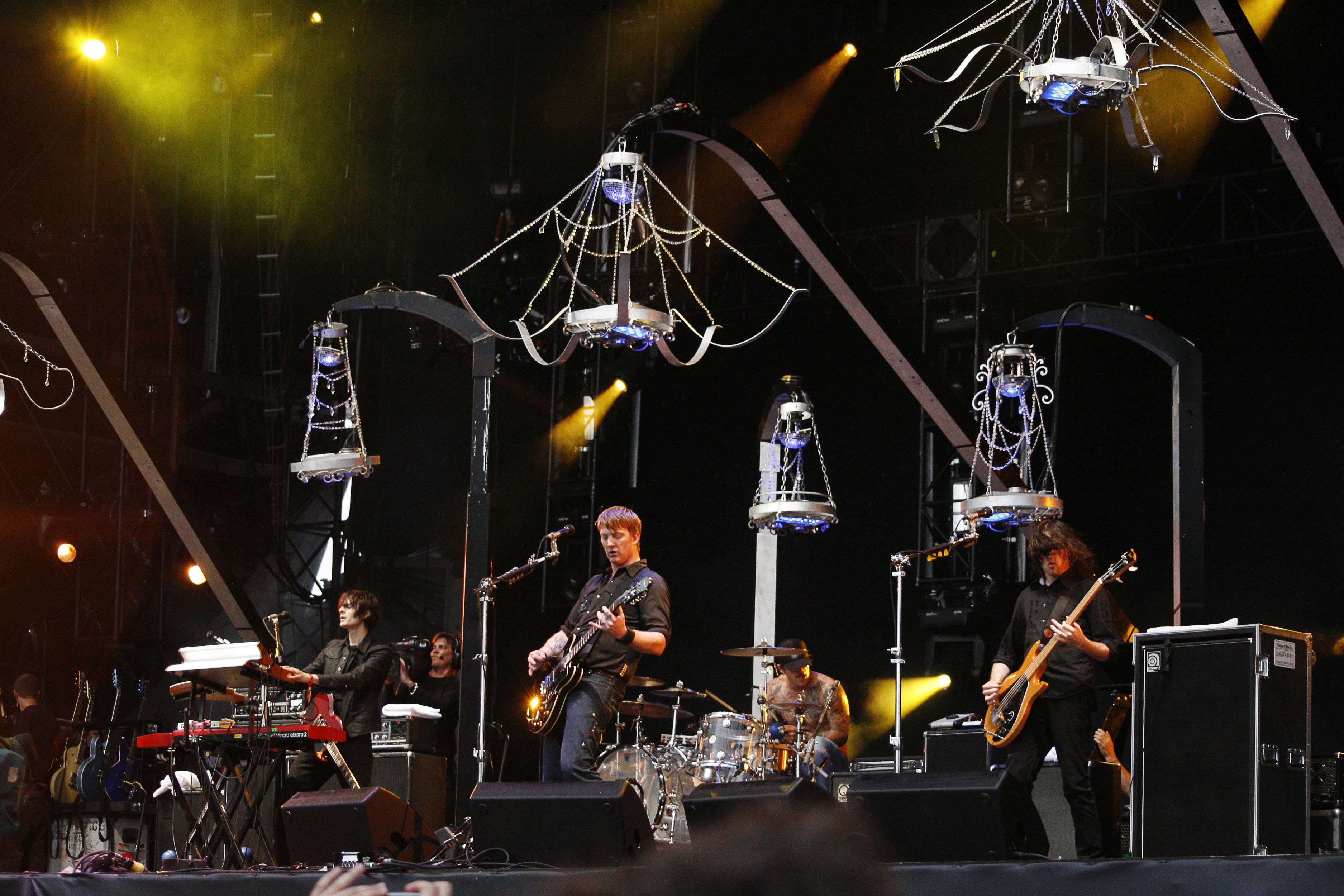 Queens of the Stone Age on Wireless Festival, 2007